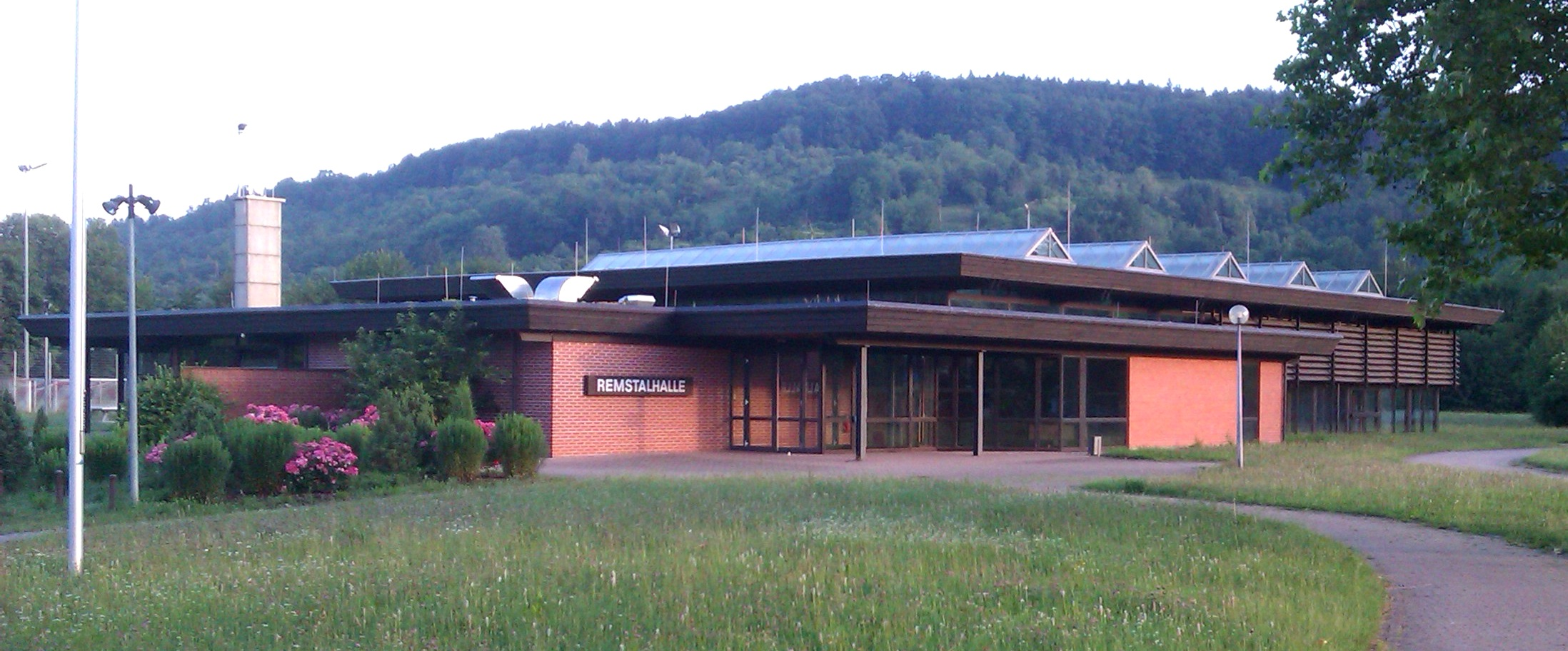 Remstalhalle, Waldhausen, Lorch